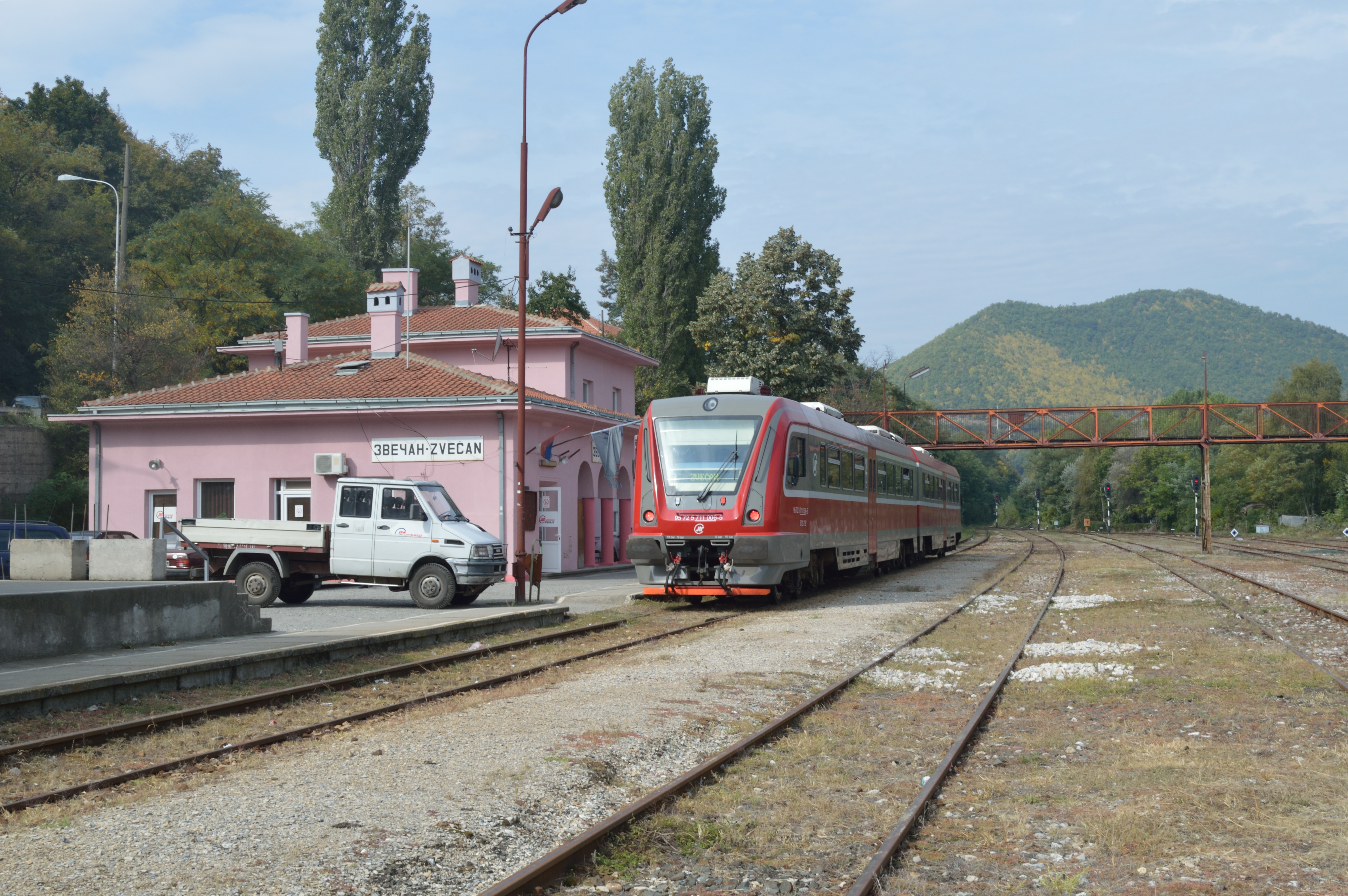 Balkans Rail Trip, Autumn 2013 - Day Seven Close to the border with Kosovo is Zvečan which sees two trains per day from Kraljevo. These are now worked by a fleet of the new Russian built DMUs based in Kraljevo. Having arrived about 10 minutes late a fleet of taxis was waiting to pick up passengers off the train to take them to Kosovska Mitrovica which is the regional capital. 711.005 on train 3830, 10:45 Zvečan to Kraljevo taken on 29 September 2013.